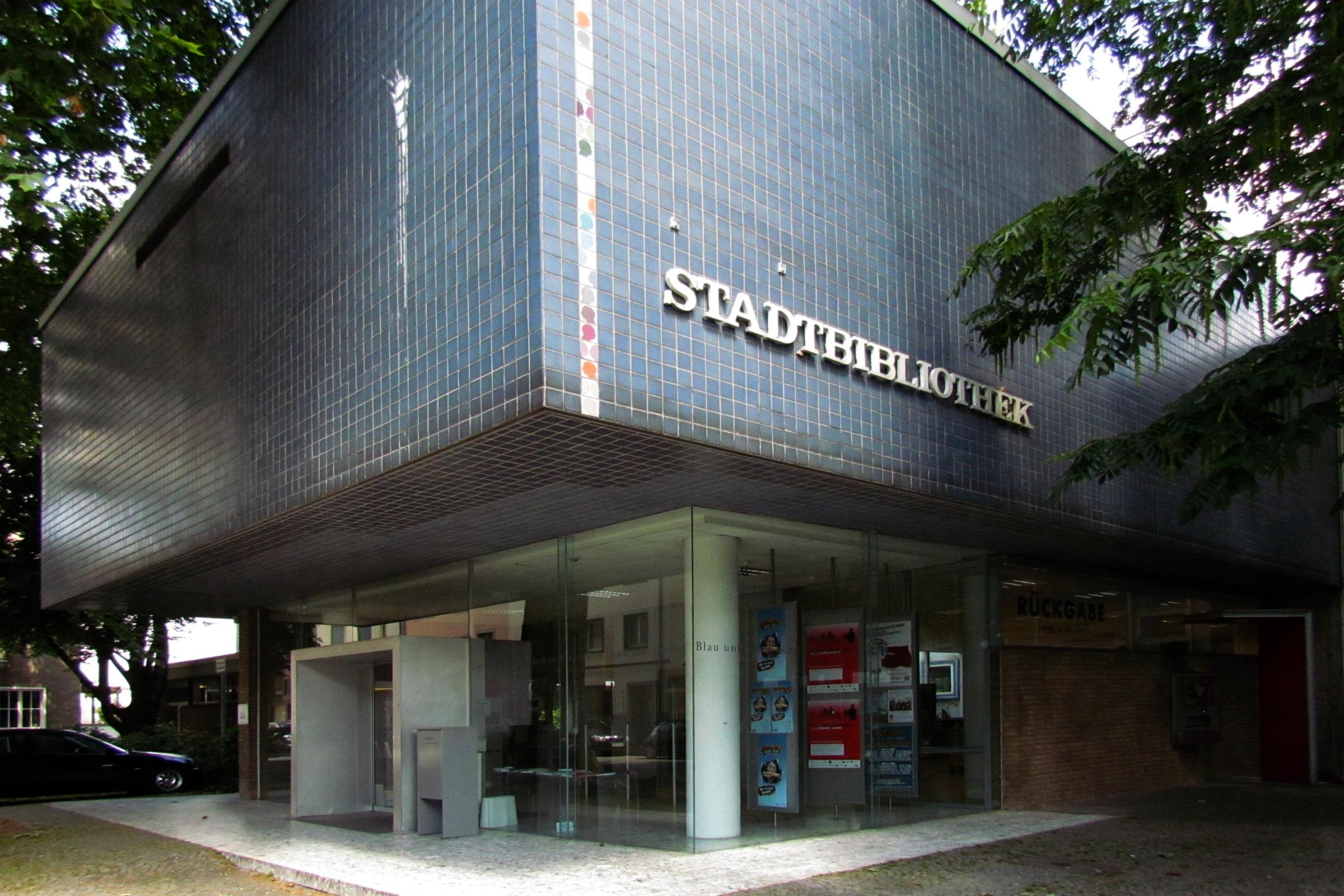 Mönchengladbach public library